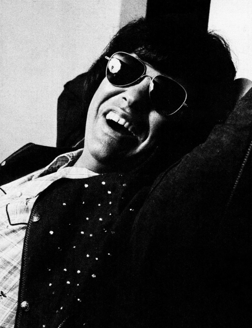 Trade ad for Ronnie Milsap. To better adapt it to his respective Wikipedia article, the ad was cropped and cleaned in a graphics editing program. The original can be viewed at the source below.